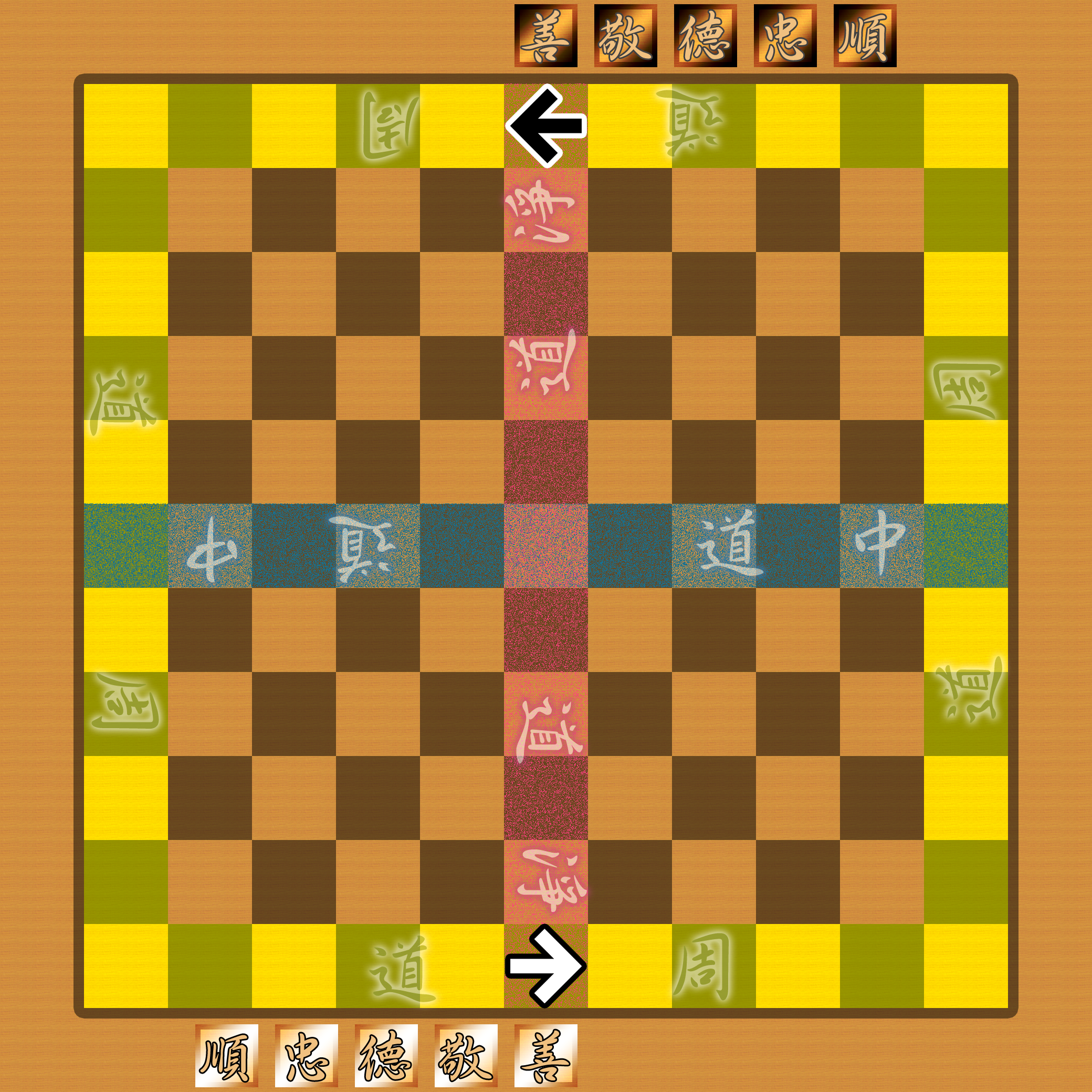 Chess board structure of Ruqi / Juki (in Chinese)